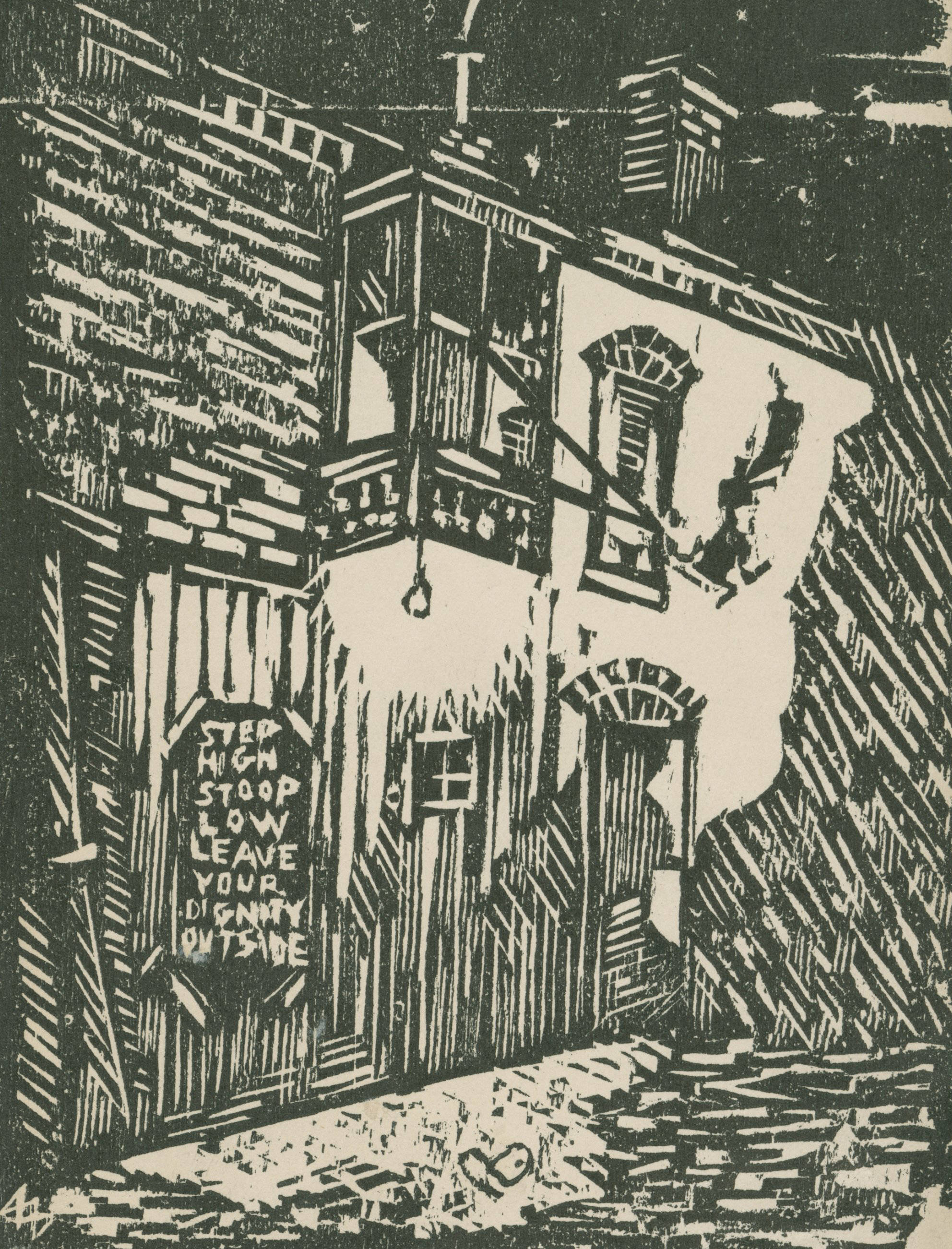 The Dill Pickle Lending Library